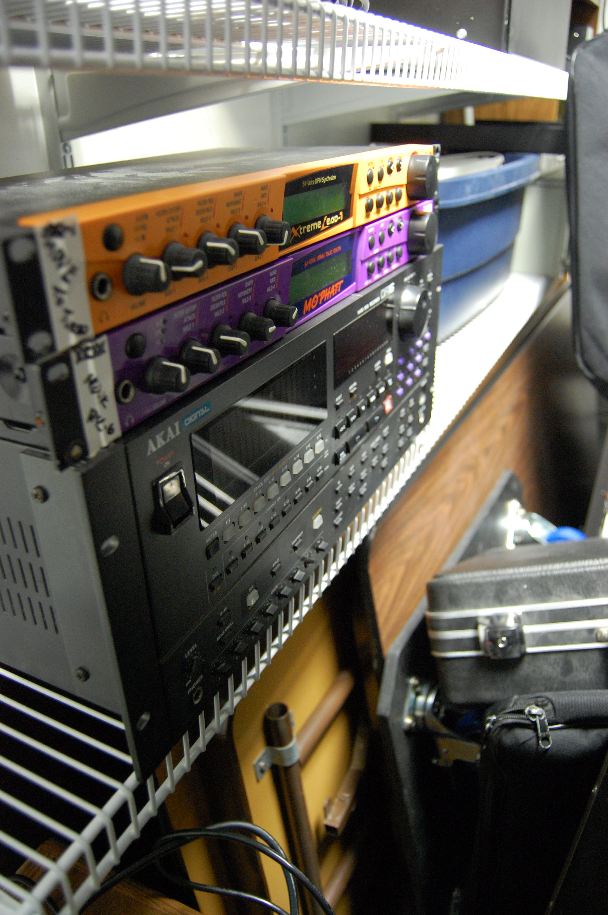 E-mu Extreme Lead-1 E-mu Mo'Phatt Akai Professional DR16 8tr/16ch recorder